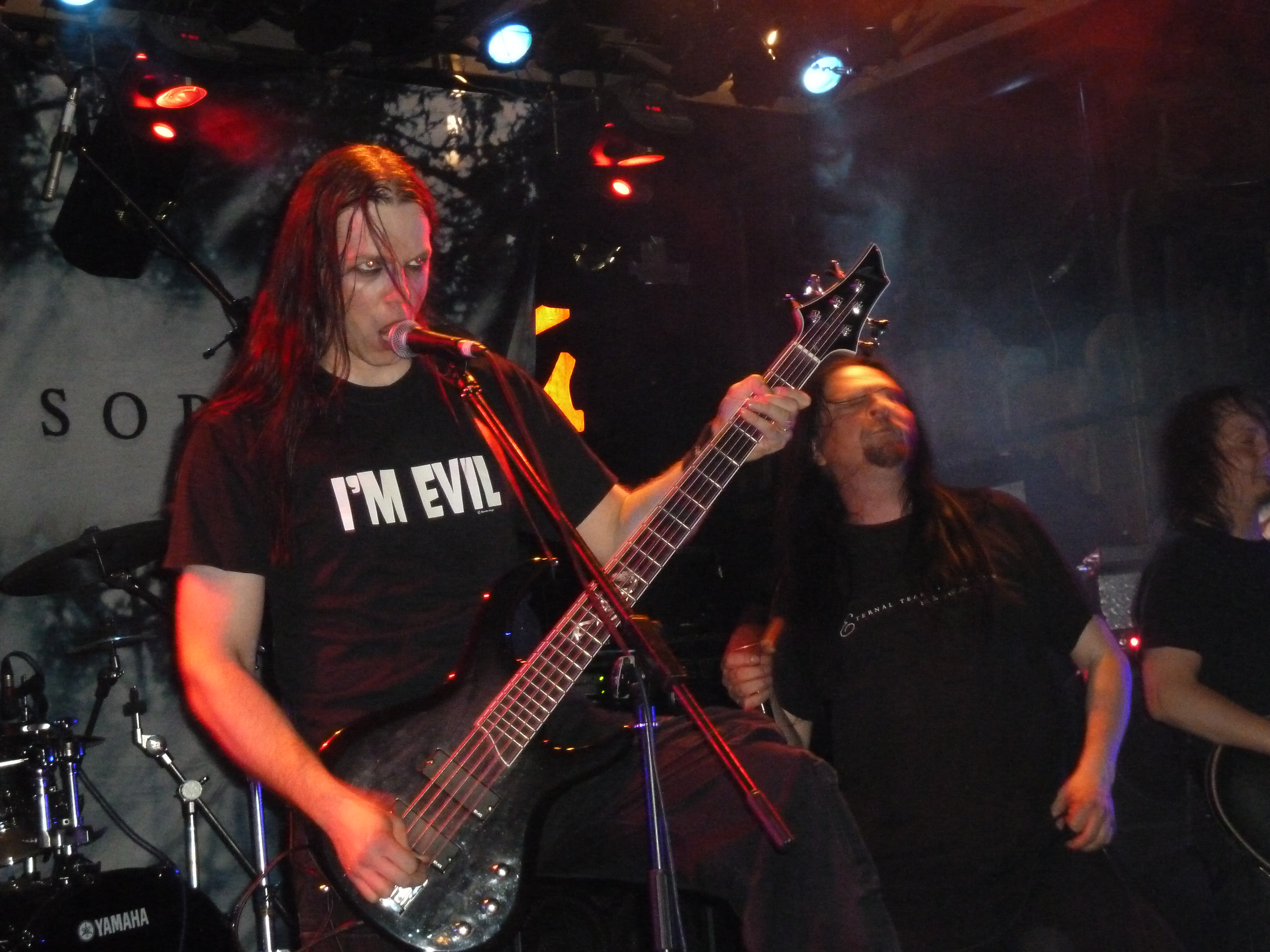 Altti Veteläinen from Eternal Tears of Sorrow band